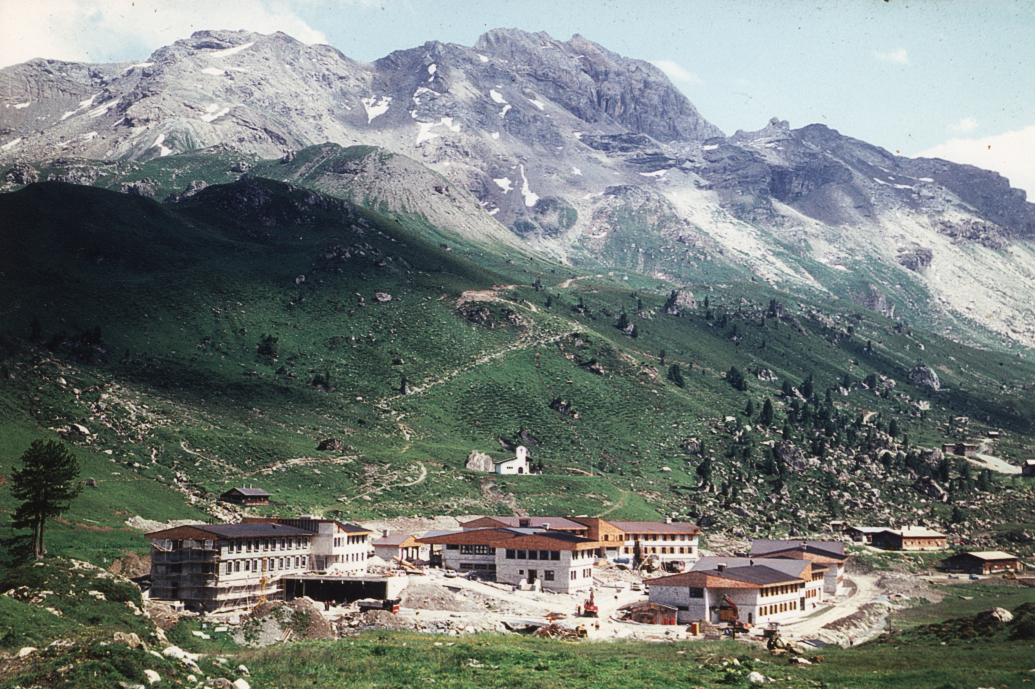 Wattentaler Lizum from northeast, Torwand (2771m) and Kalkwand (2826m)